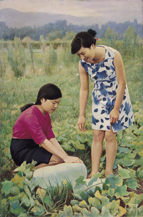 李梅樹 1975 【清晨】 油彩，畫布，145.5 x 97 cm 80P